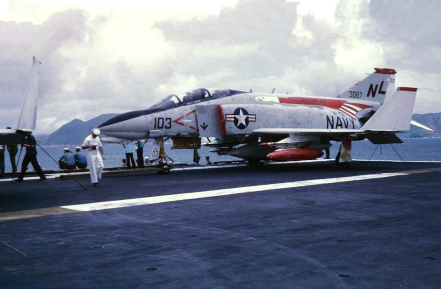 A McDonnellDouglas F-4B Phantom II (BuNo 153027) of fighter squadron VF-51 Screaming Eagles aboard the aircraft carrier USS Coral Sea (CVA-43) in 1971-72. VF-51 was assigned to Attack Carrier Air Wing 15 (CVW-15) aboard the Coral Sea for a deployment to Vietnam from 12 November 1971 to 17 July 1972. Note the silhouette of a MiG-17 on the air intake, stating a "kill". Lt. Dennis H. Wisely and Lt.(JG) Gareth Anderson shot down a MiG-17 with this aircraft on 24 April 1967 (as NH-114). They were assigned to VF-114 Aardvarks, CVW-11, on the USS Kitty Hawk (CVA-63). The aircraft was retired to the MASDC as 8F0142 on 17 November 1983.